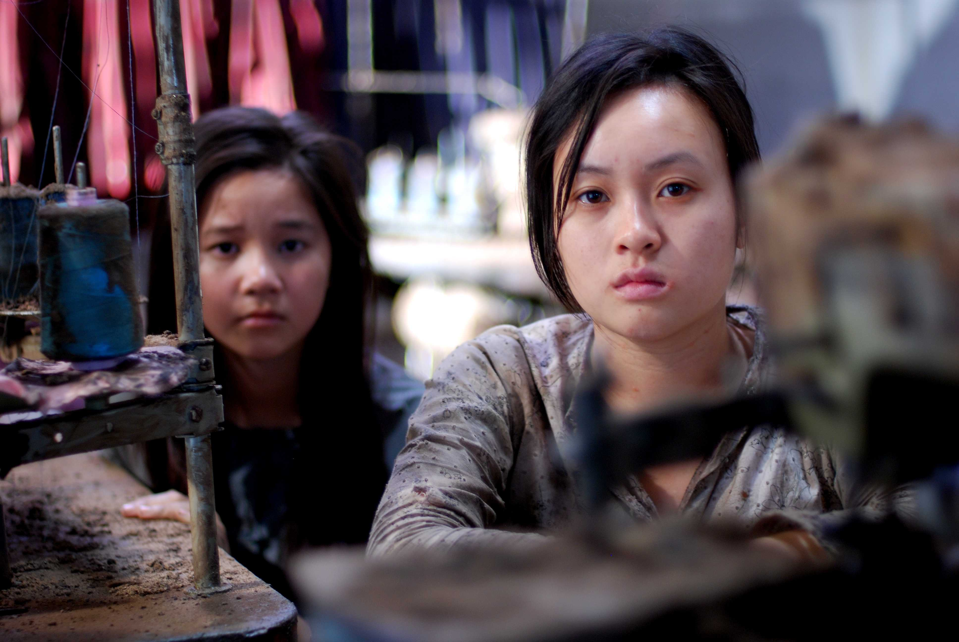 Still from the film "Mother Fish"